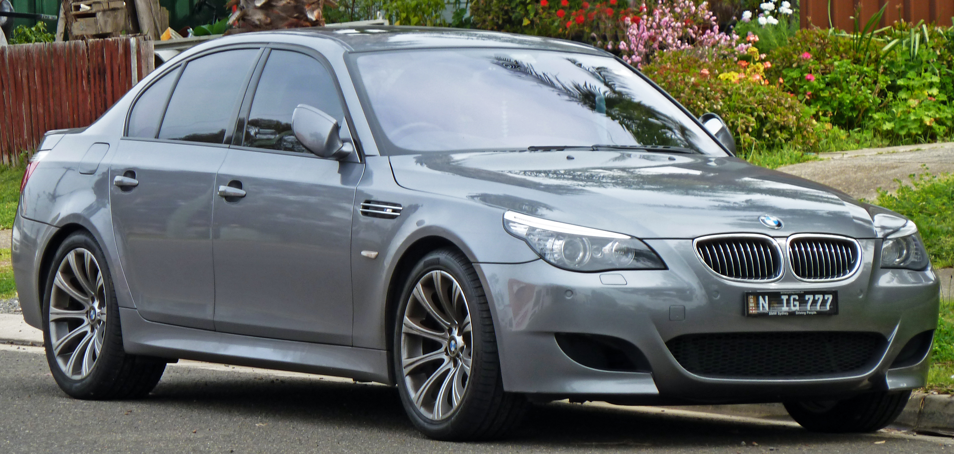 2007–2010 BMW M5 (E60) sedan. Photographed in Caringbah, New South Wales, Australia.